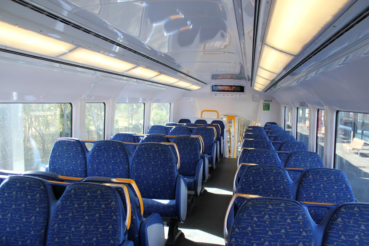 upper deck of m set